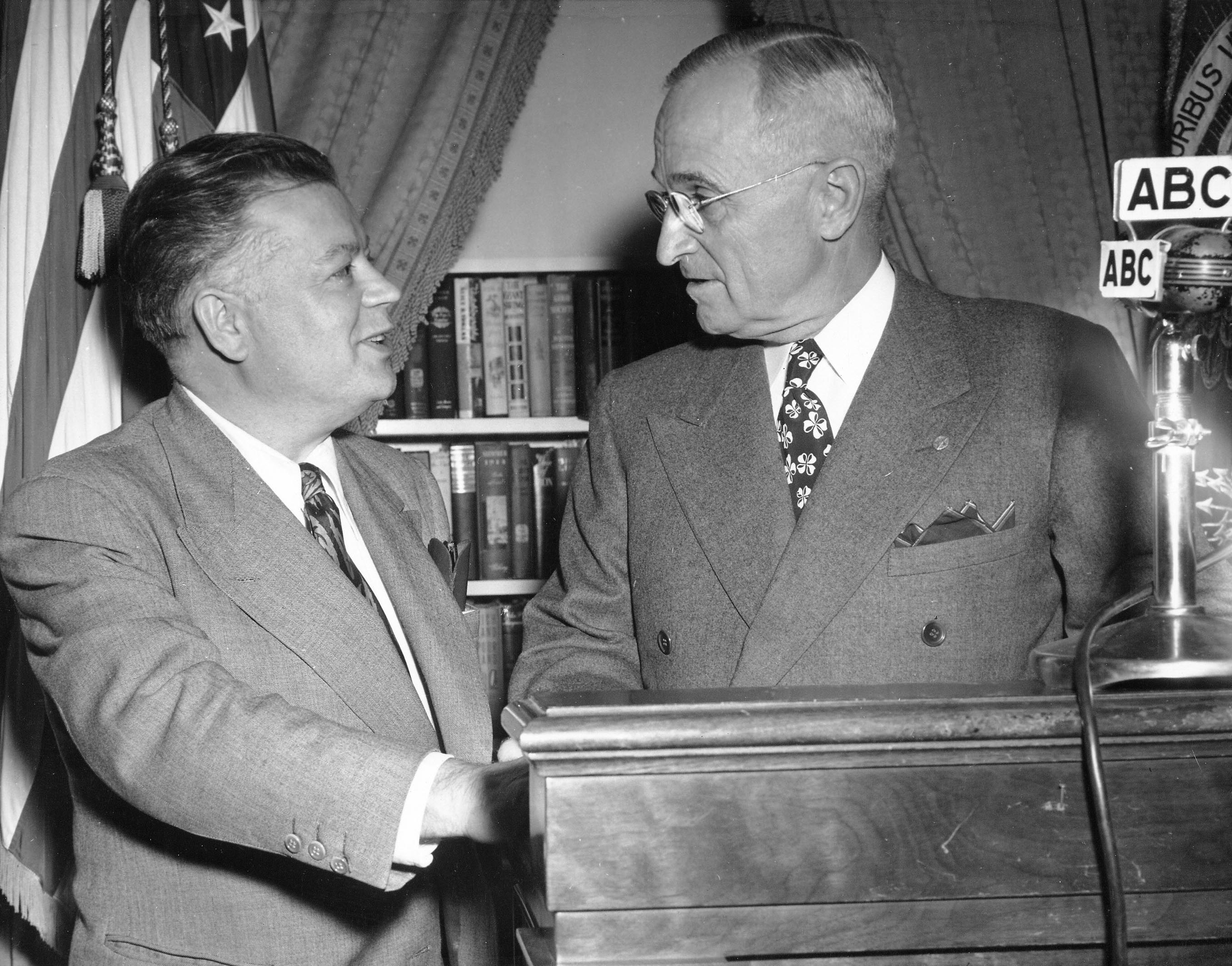 Title: Harry Truman and David Dubinsky at a podium with an ABC microphone Date: Unknown Photographer: Unknown Photo ID: 5780PB40F1EP400G Collection: International Ladies Garment Workers Union Photographs (1885-1985) Repository: The Kheel Center for Labor-Management Documentation and Archives in the ILR School at Cornell University is the Catherwood Library unit that collects, preserves, and makes accessible special collections documenting the history of the workplace and labor relations. Notes: No additional information available. Copyright: The copyright status of this image is unknown. It may also be subject to third party rights of privacy or publicity. Images are being made available for purposes of private study, scholarship, and research. The Kheel Center would like to learn more about this image and hear from any copyright owners who are not properly identified so that we may make the necessary corrections. Tags: Kheel Center for Labor-Management Documentation and Archives,Cornell University Library,Labor Leaders, Public Figures